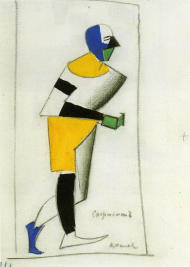 Costume for "Victory over the Sun". Sportsman